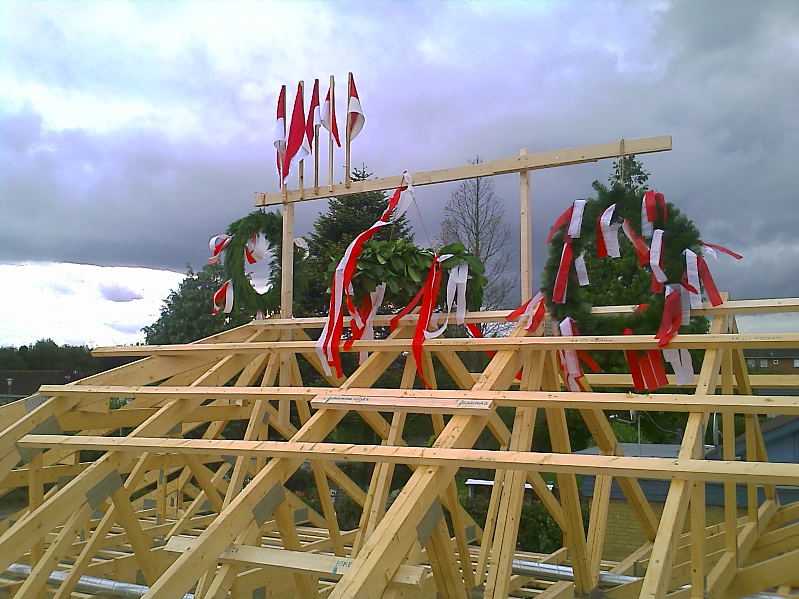 Topping-out ceremony in Sønderborg, Denmark